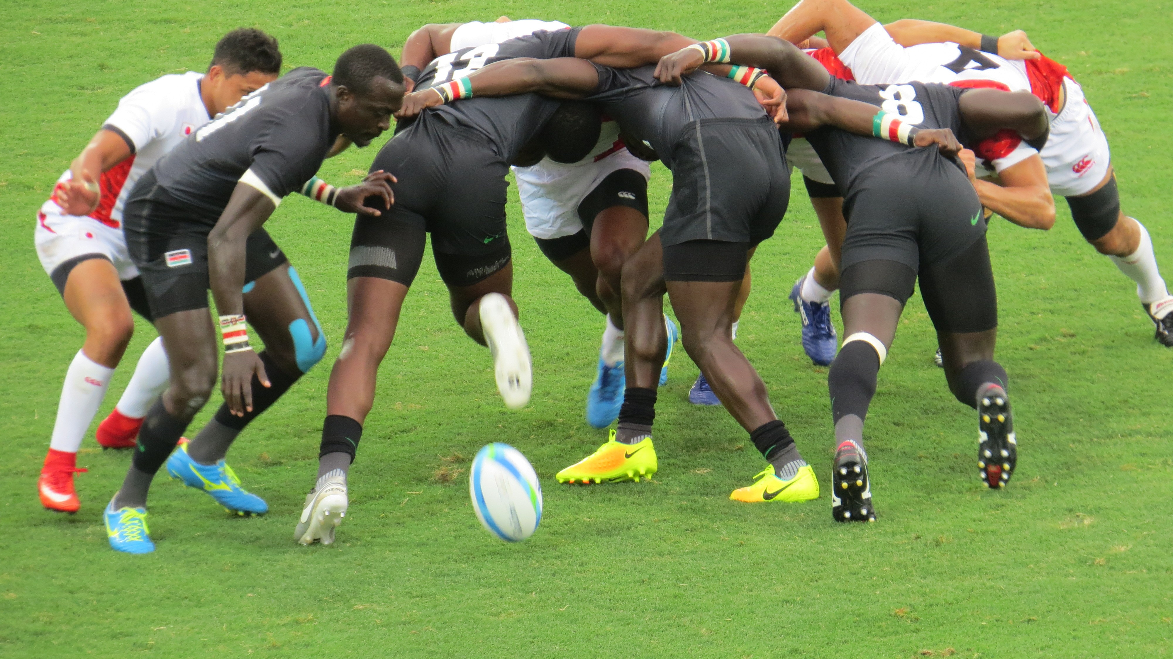 Rio 2016. Rugby 118